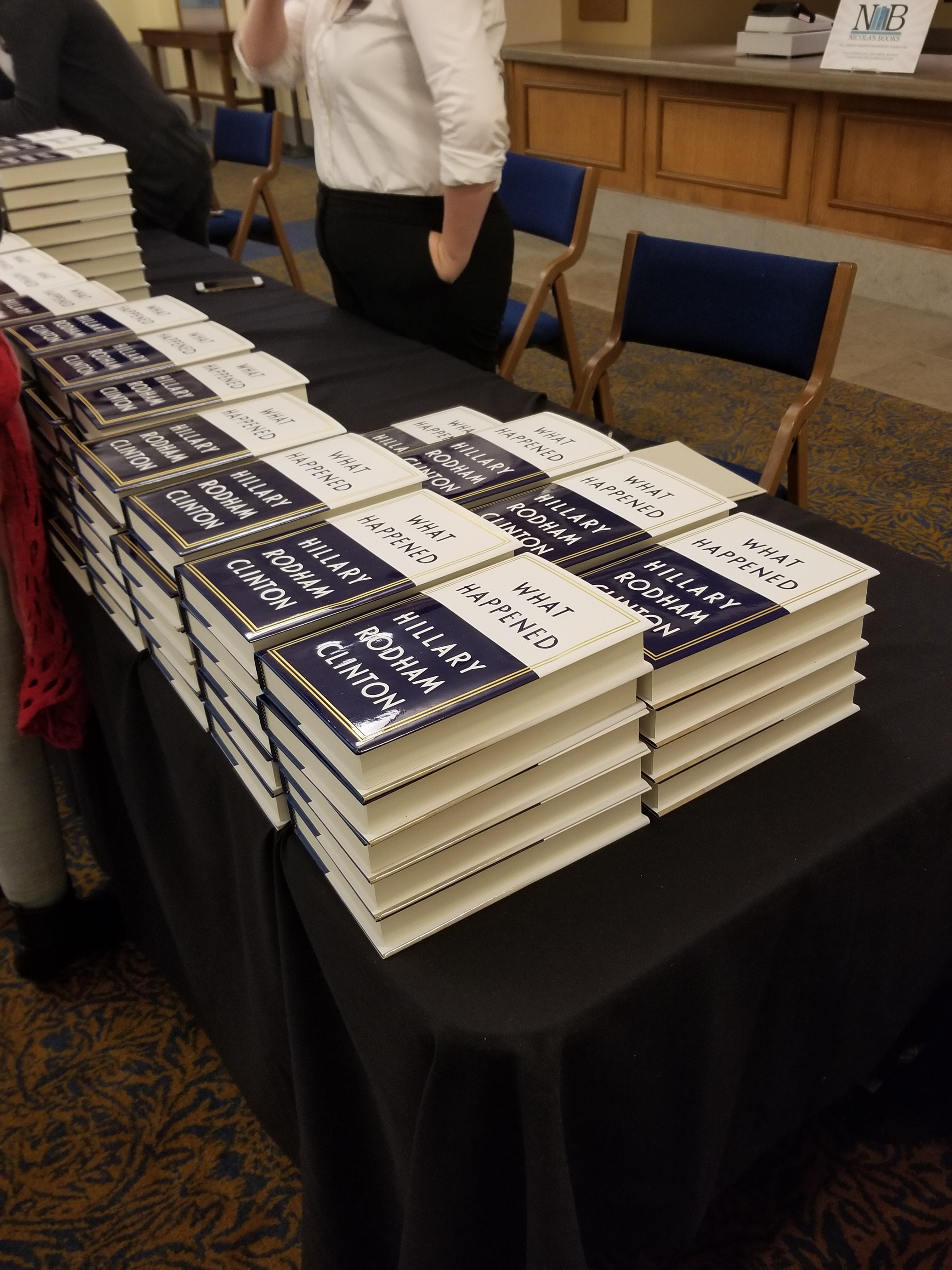 In the lower level of the Hill Auditorum (beneath the lobby). Copies of both of Hillary's new books were available for purchase at the event. Some ticket holders had purchased a book along with their ticket (since, for some tickets, a copy of the book was included), and were to pick up those copies at this (and another) table, while others did not have a book included with their ticket purchase, but still had the option of paying for copies during the event. Her new children's book 'It Takes a Village' was also available for purchase.